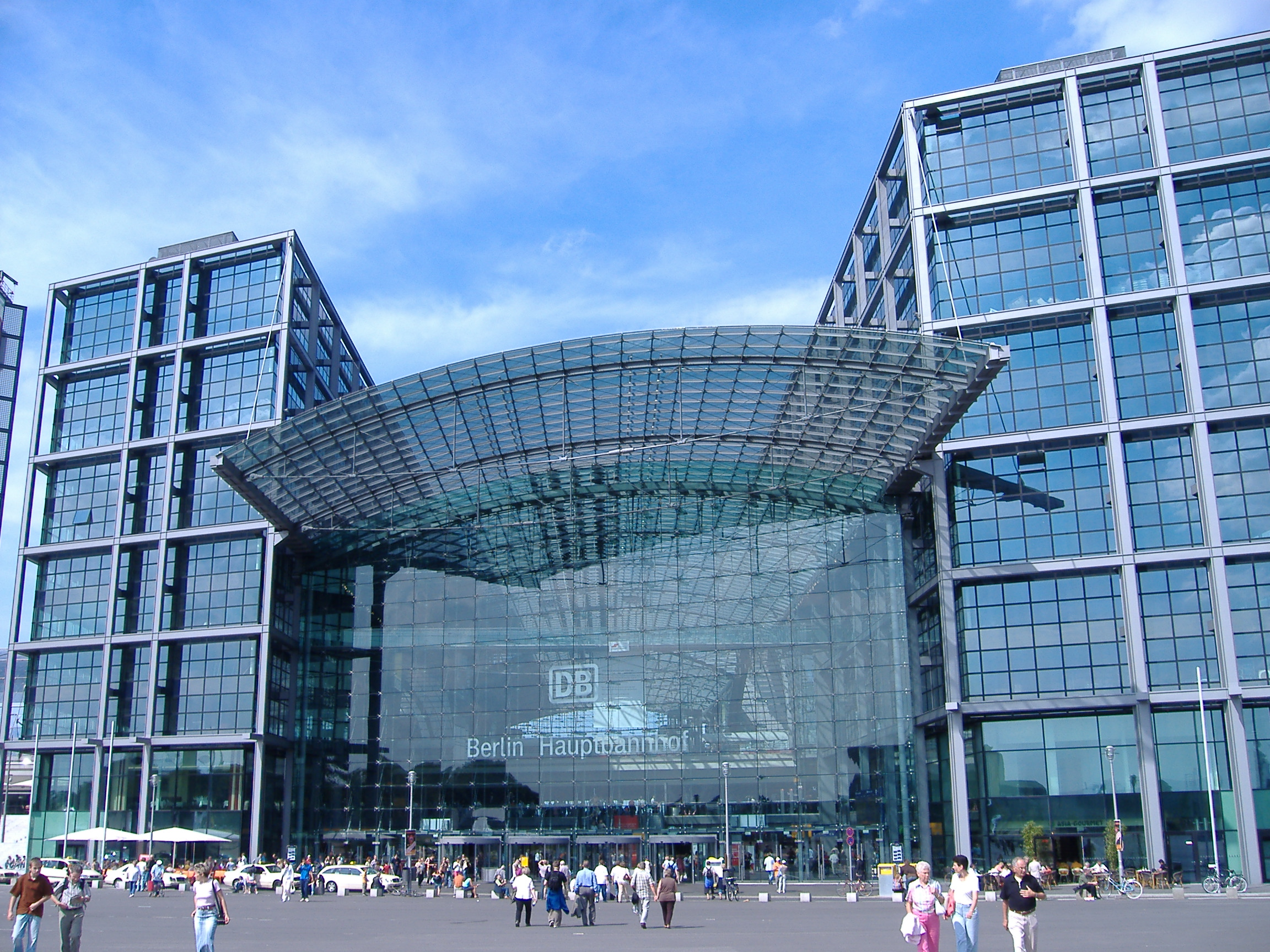 Berlin Hauptbahnhof - view to the southern entrance